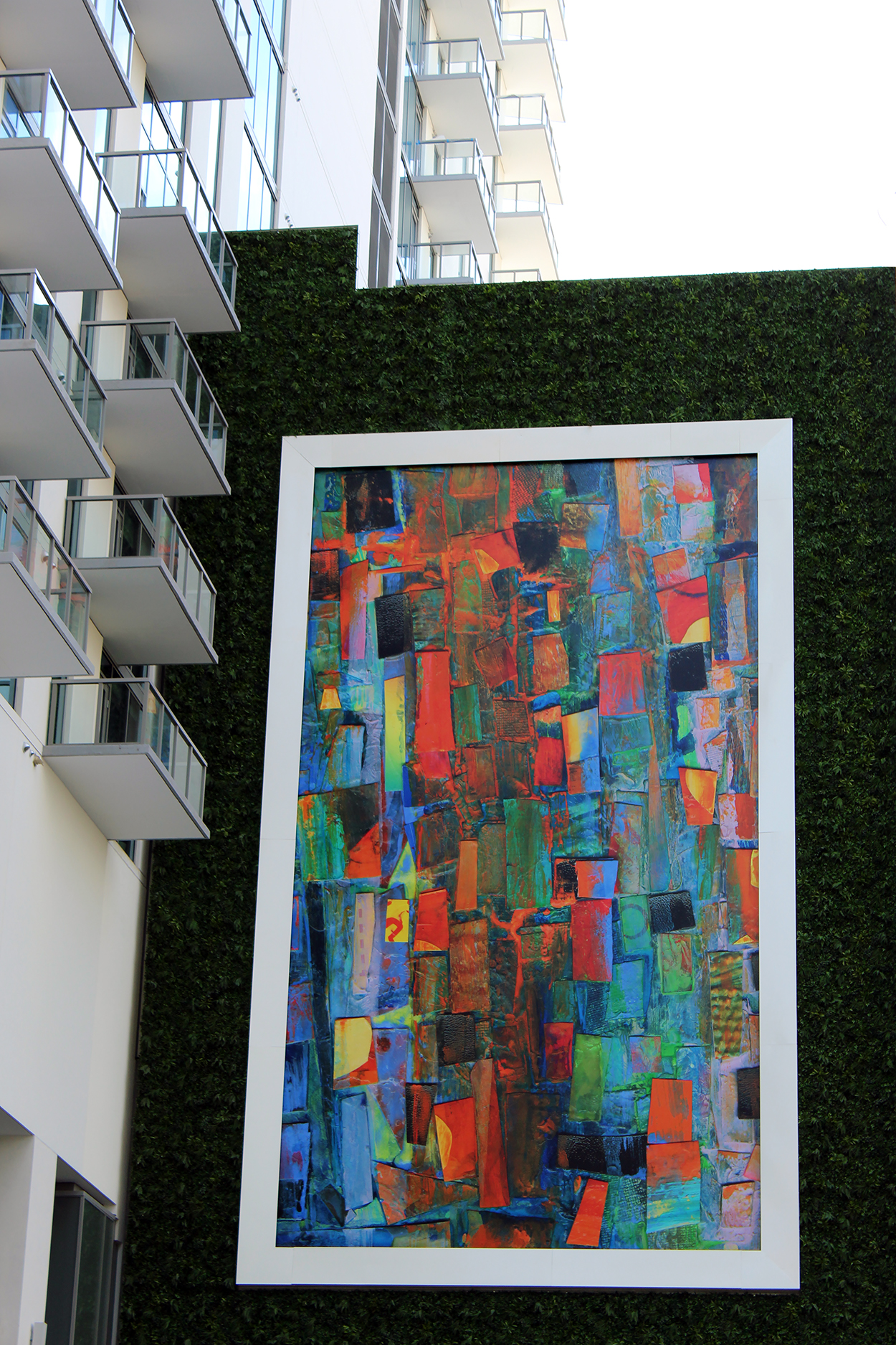 Mural by Deanna Sirlin on the entrance to Icon Buckhead, Atlanta, Georgia